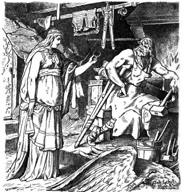 "Badhild in Weilands Schmeid" (1883) by Johannes Gehrts. Beadohilde presents the bandaged and crutched Wayland Smith with the broken jewelry at his smithy.